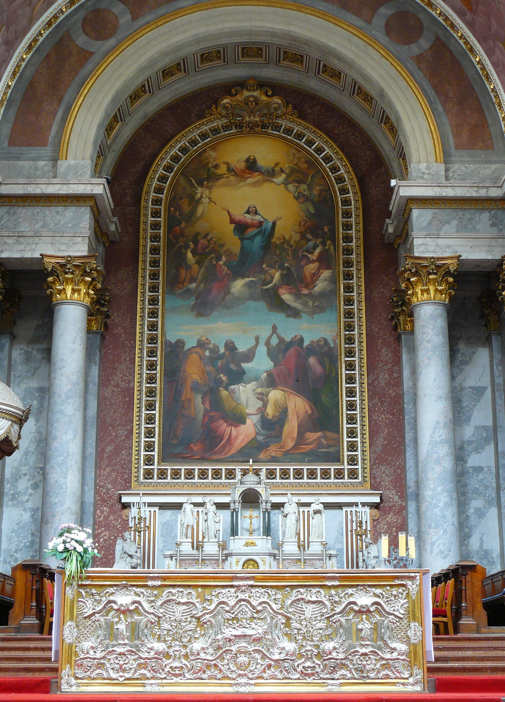 The altarpiece of Esztergom Basilica was painted by Michelangelo Grigoletti. It is the biggest altar-piece in the world which was painted only onto a single canvas.